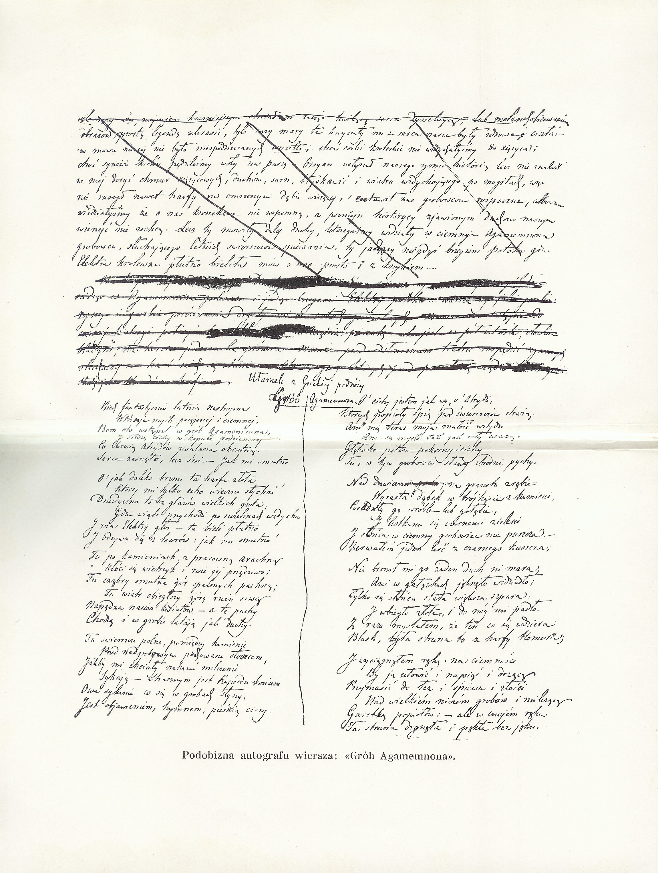 Autograph of Juliusz Słowacki's Grób Agamemnona from the 1909 edition of his complete works. Scan downloaded from [1].